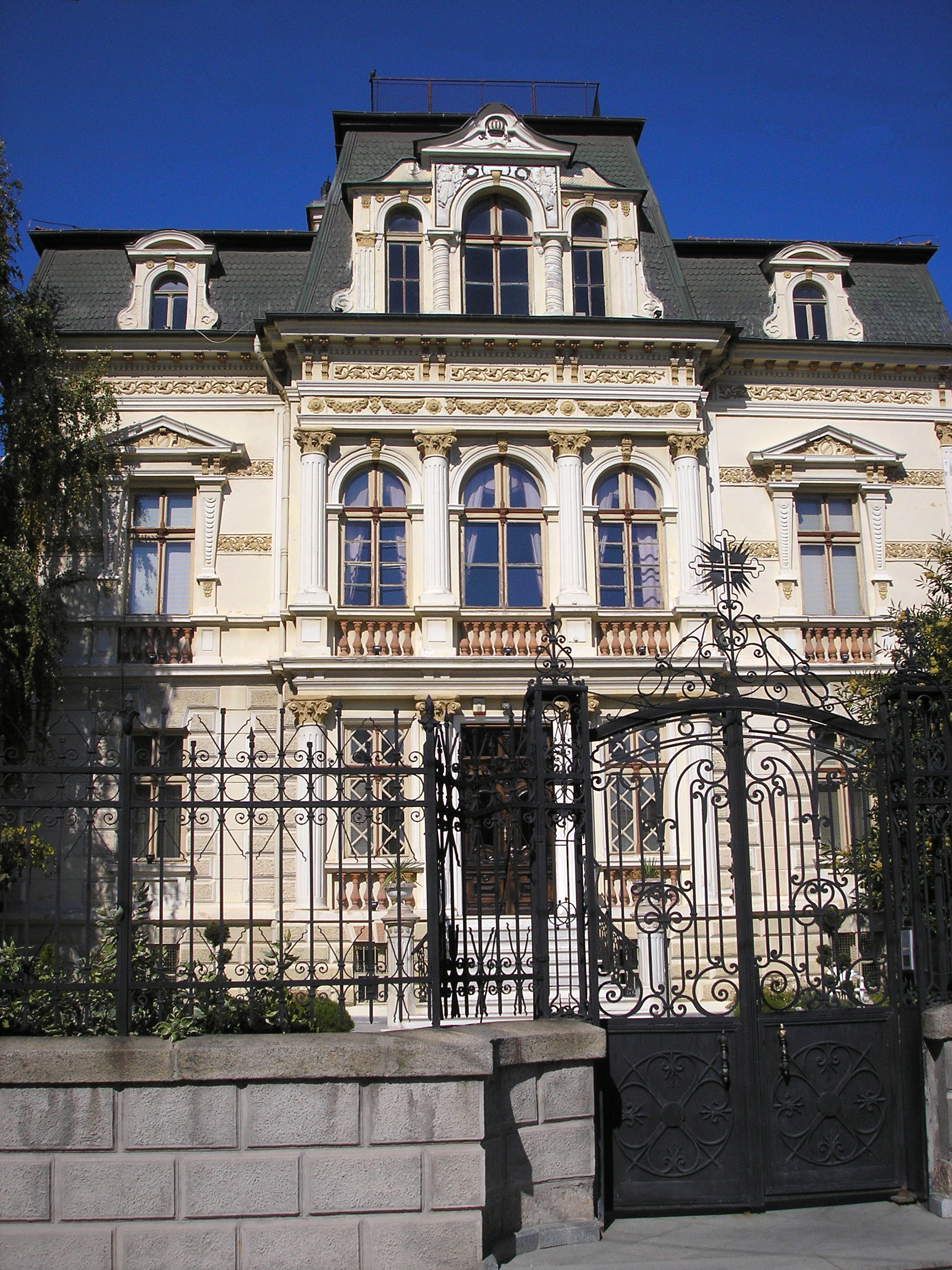 The Bitola Bishopric building, city of Bitola, Macedonia.